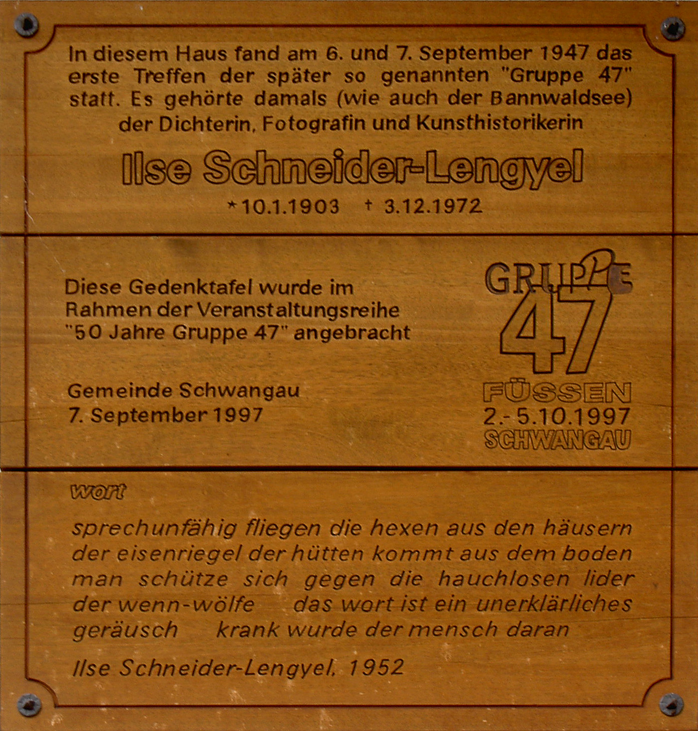 House where the "group 47" was founded, living house of German writer Ilse Schneider-Lengyel at the lake "Bannwaldsee", Bavaria, Germany, memorial board